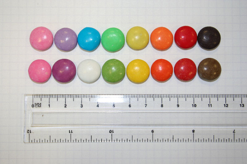 Photograph of Nestlé Smarties as sold in the UK, before (top) and after (bottom) change to natural colours. Background is 5mm squares.